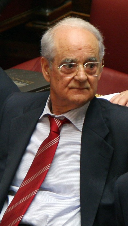 Greek MP (PASOK) and former president of the Greek Parliament, Apostolos Kaklamanis in 2008.